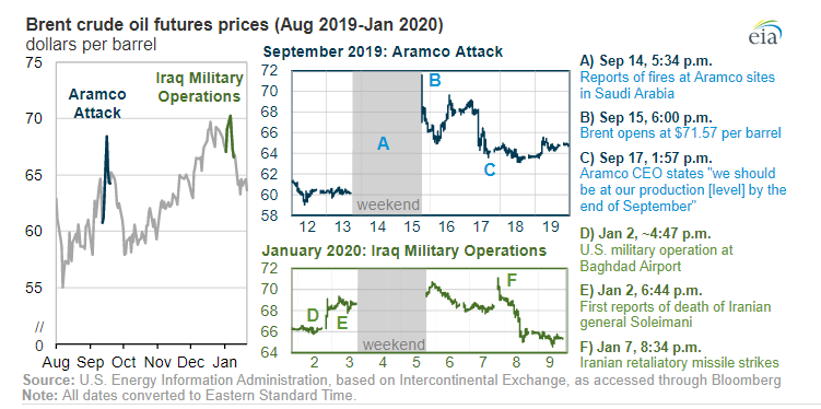 Crude oil supply disruptions—realized or expected—can have large and immediate effects on crude oil prices. Two recent events, the September 2019 attacks on Saudi Aramco facilities at Abqaiq and Khurais (which disrupted crude oil volumes) and the January 2020 military operations in Iraq (which did not disrupt crude oil volumes), led to relatively large daily price changes and intraday price movements—movements within single trading days. Intraday prices of front-month Brent crude oil futures for the two events followed a broadly similar path at first: an upward movement as market participants reacted to the news and a downward movement as new information was incorporated. January 31, 2020